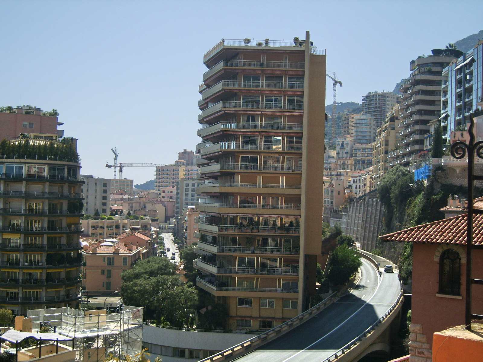 Monaco buildings